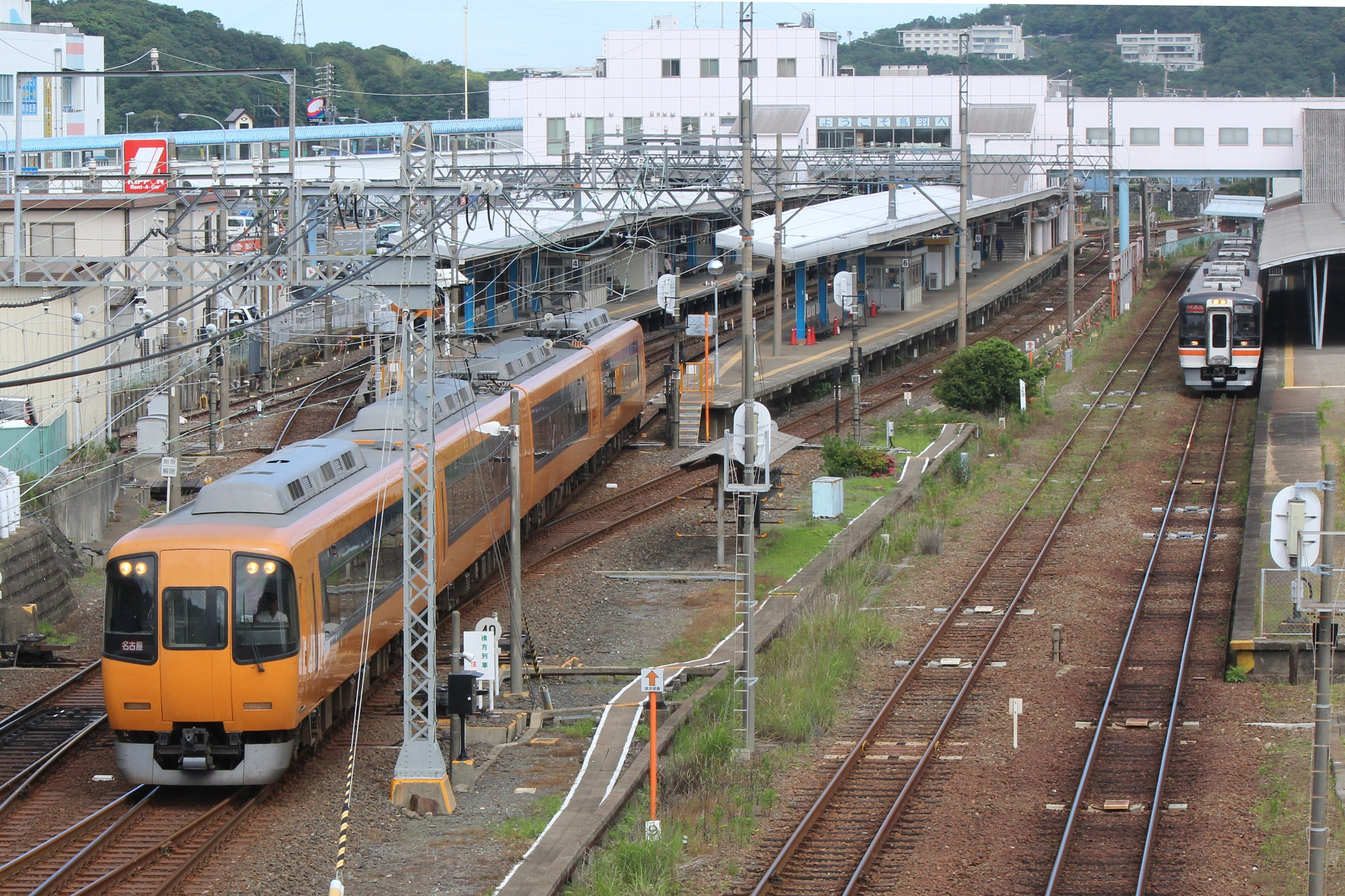 Limited express train of Kintetsu (left) and Rapid Mie of JR Central (right) at Toba Station